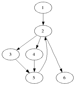 Control flow graph that has the Dominator tree shown in File:Domtree.png